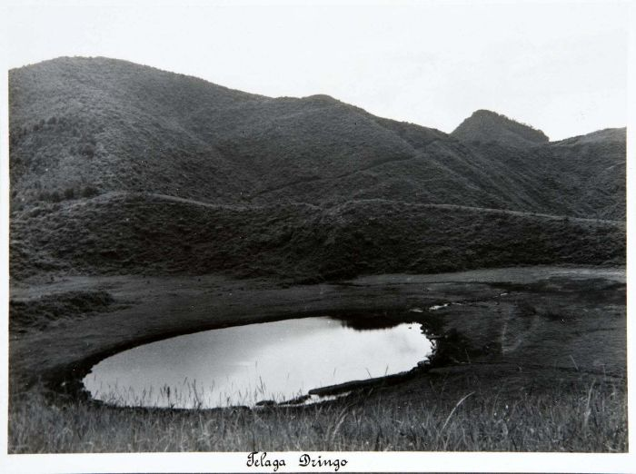 Telaga Dringo at the Dieng Plateau